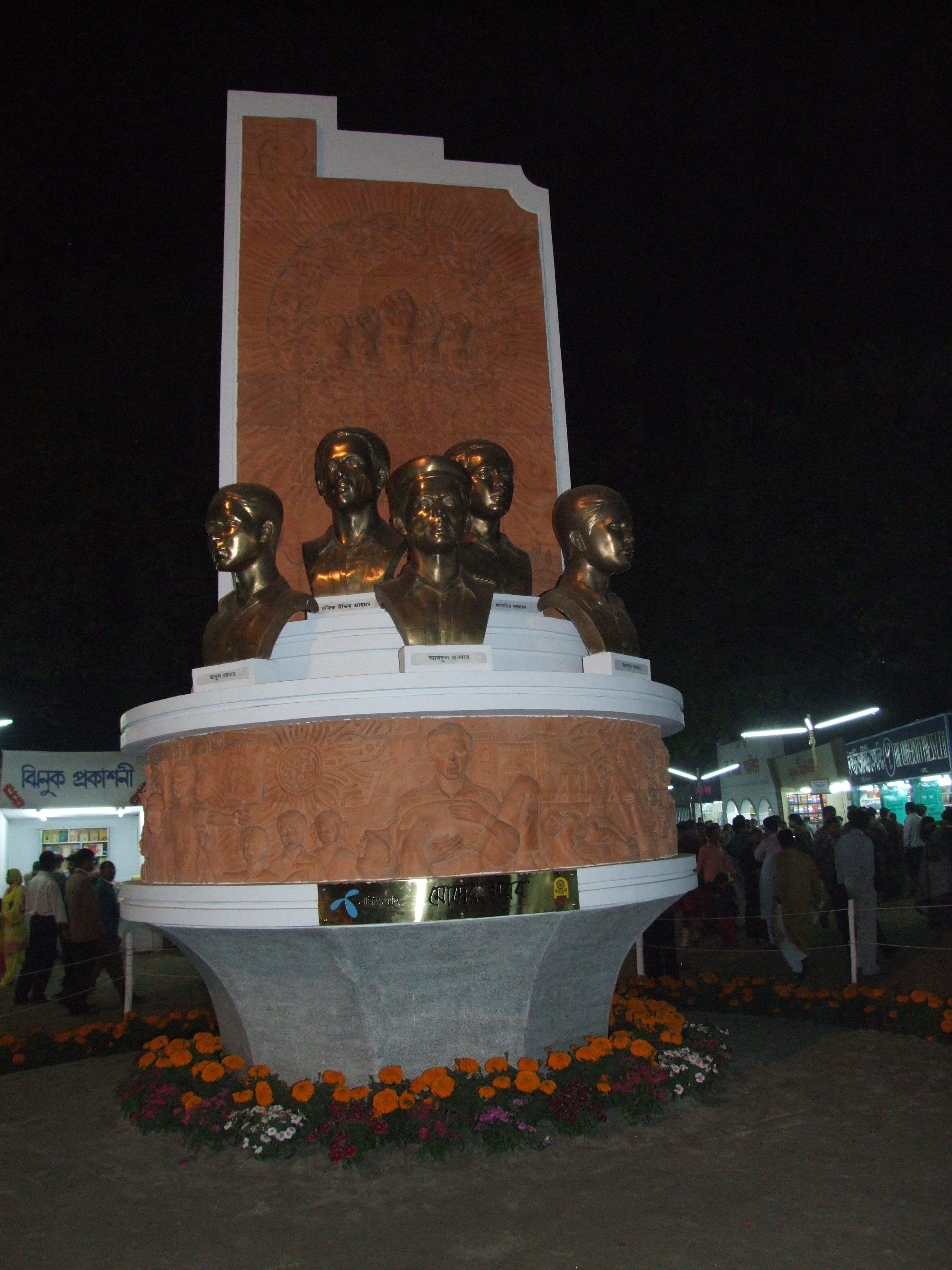 moder gourob a group of bust, depicting the Language movement martyrs.